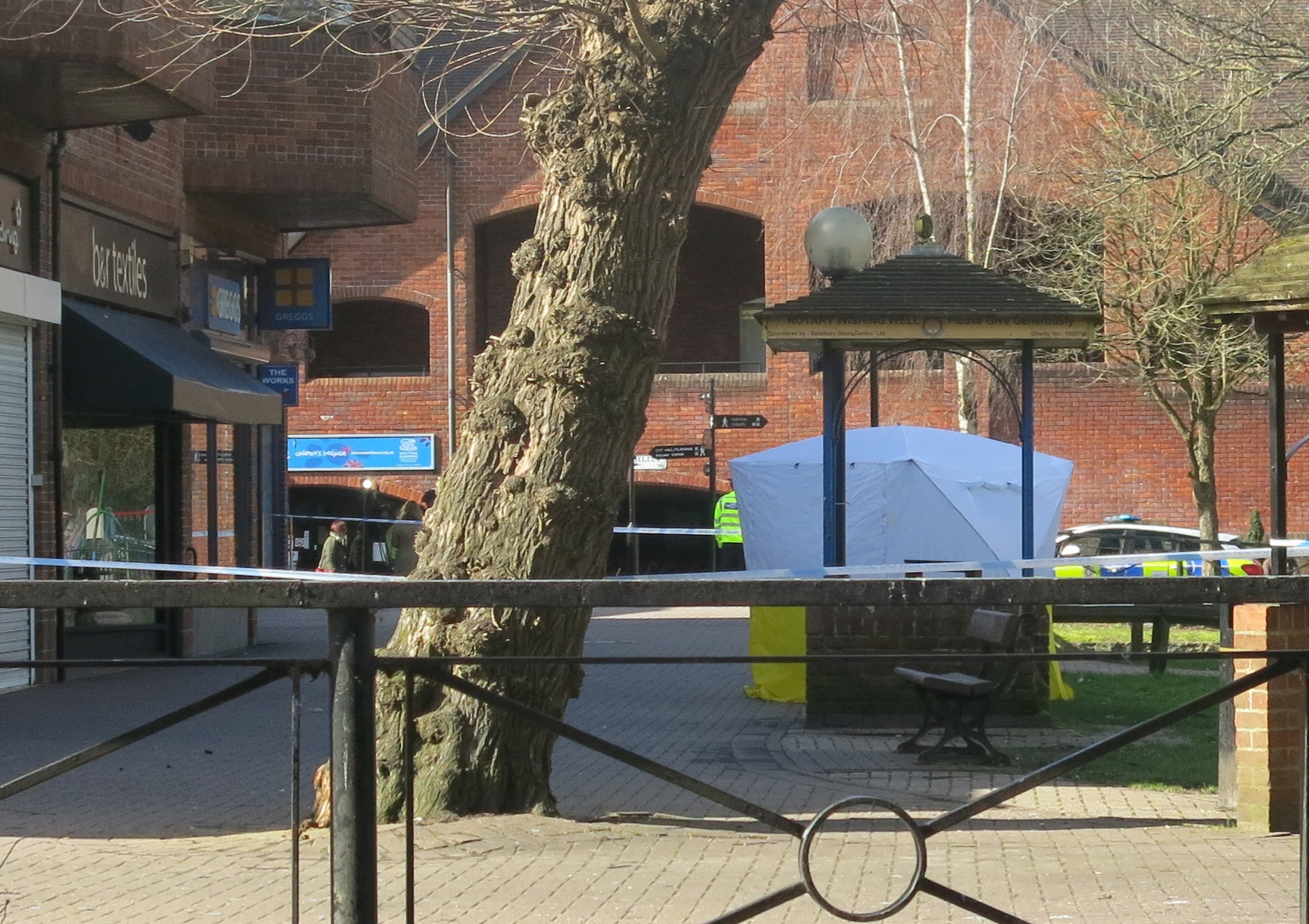 Cropped version.